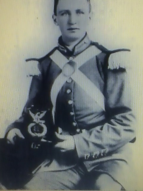 Image of Pvt. McKensie Dunlop in his dress uniform, of Co. C, Petersburg Greys, 12th Virginia Infantry, in 1861.